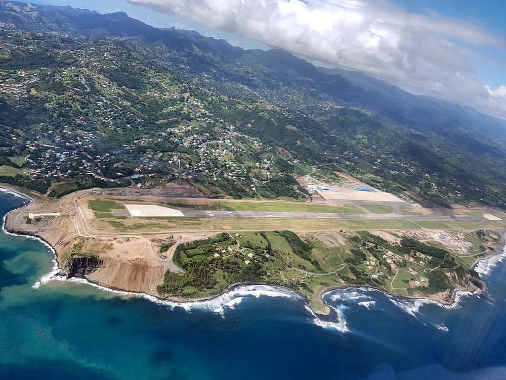 Argyle International Airport from above.